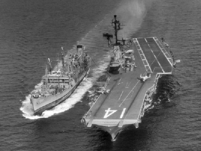 The U.S. Navy fleet oiler USS Manatee (AO-58) refueling the aircraft carrier USS Ticonderoga (CVA-14) off the U.S. West Coast on 15 July 1965.